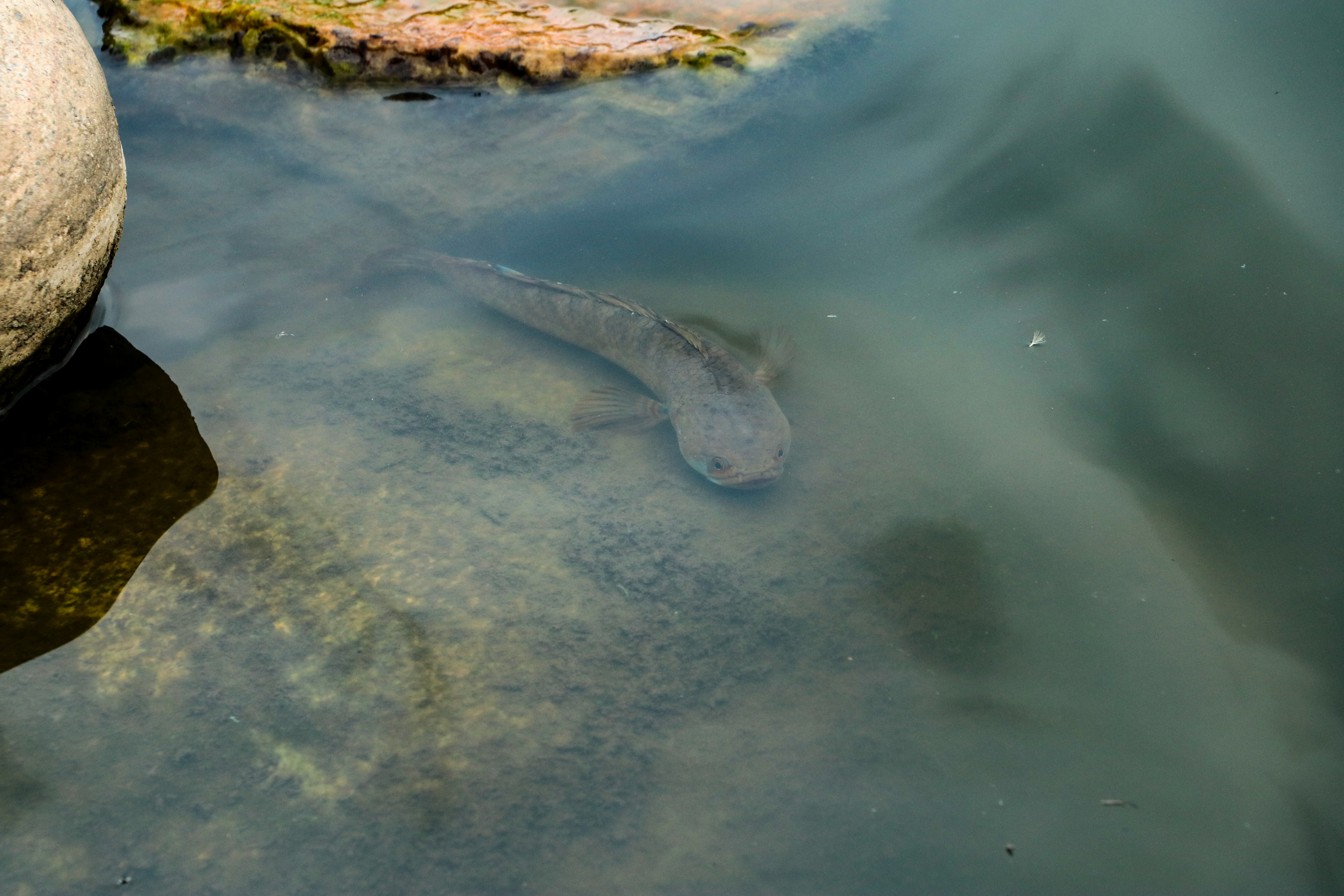 This is a species of dwarf snakehead which is a native fish and this species is quite common at Taudaha lake.